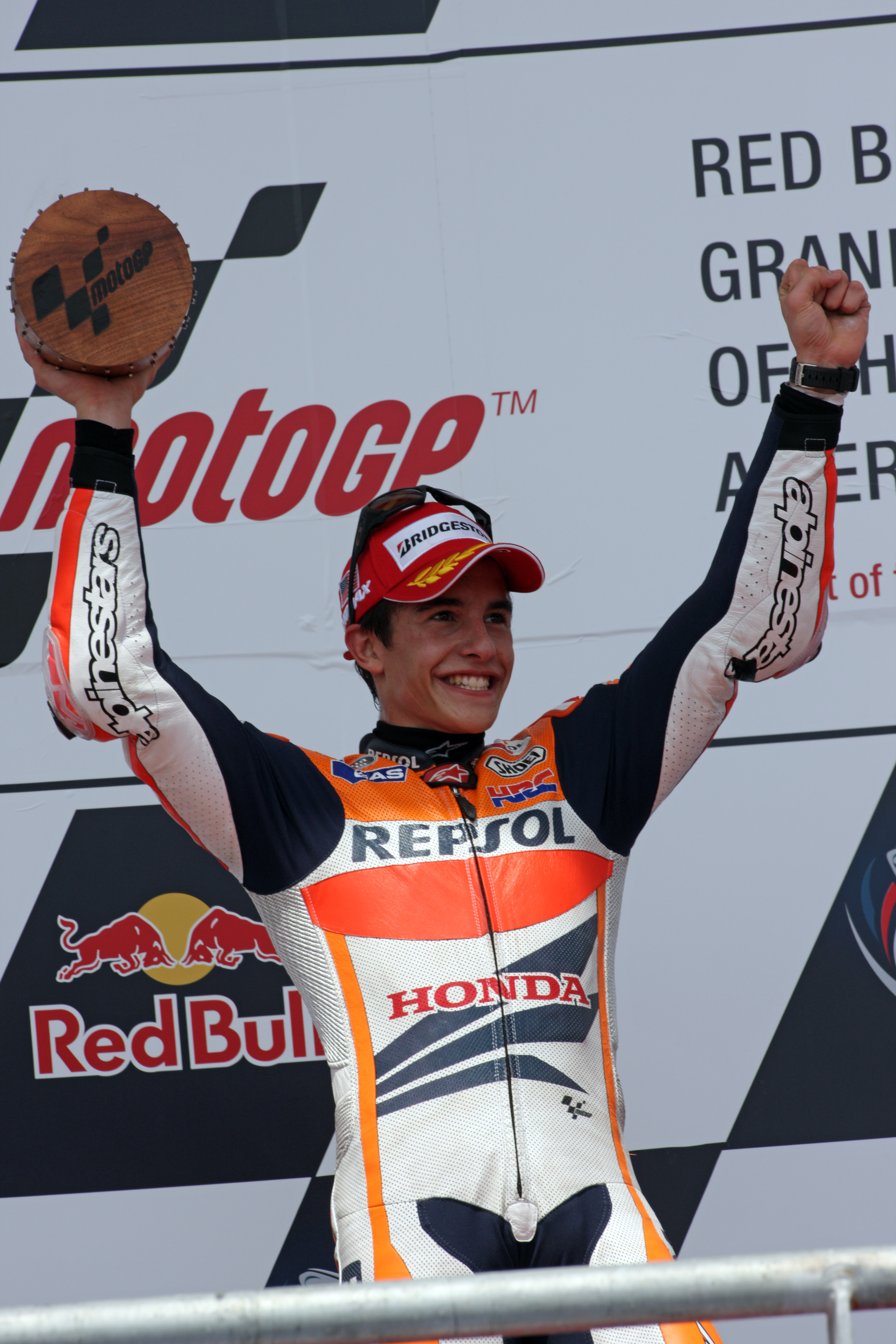 Marc Márquez, holding his trophy and celebrating on the podium after winning the 2013 Grand Prix of the Americas.